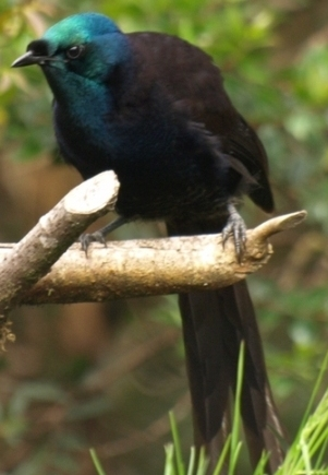 Juvenile male Ribbon-tailed Astrapia (Astrapia mayeri), yet to develop his white tail plumage